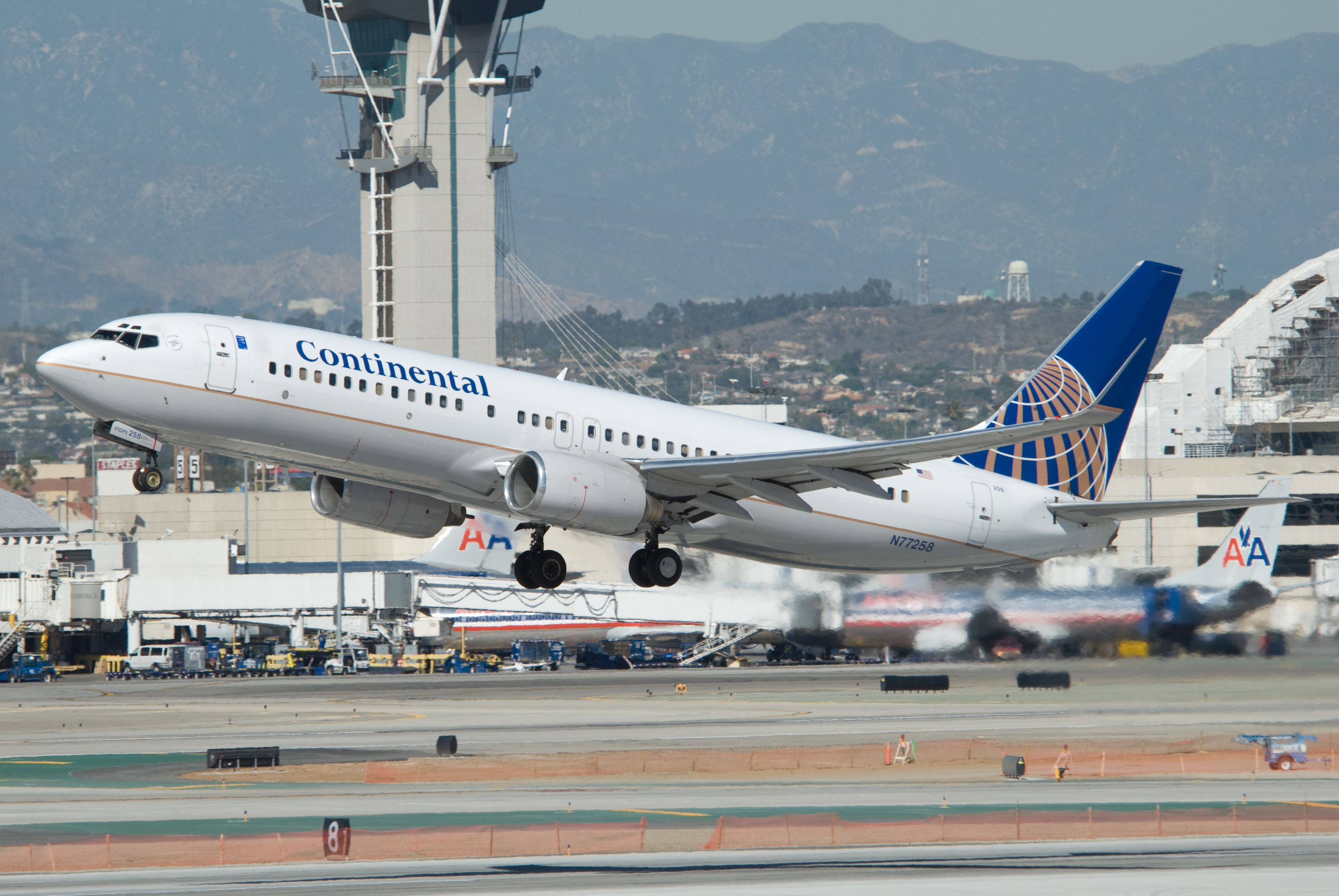 Continental Airlines 737-800 taking off from Los Angeles for Houston.